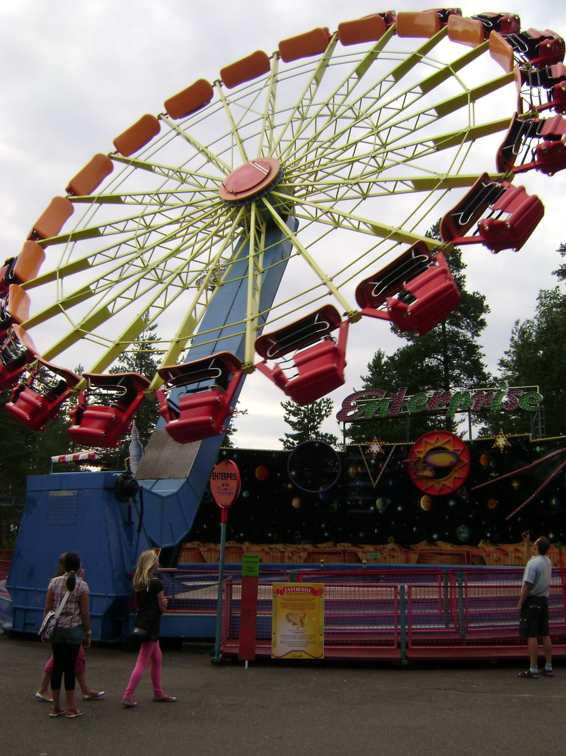 Enterprise in Tykkimäki amusement park, Kouvola, Finland.